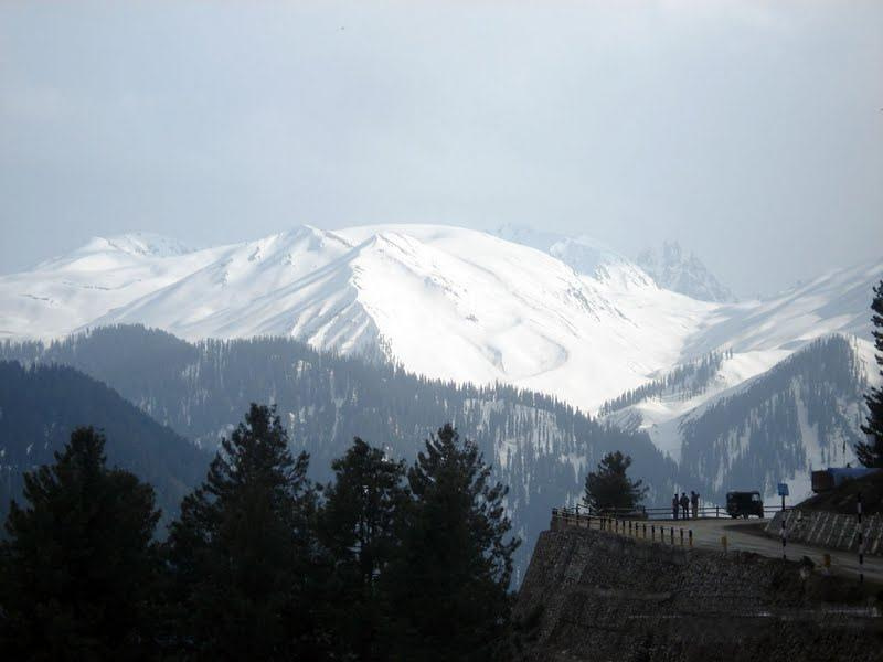 View of snow-capped mountains, Gulmarg